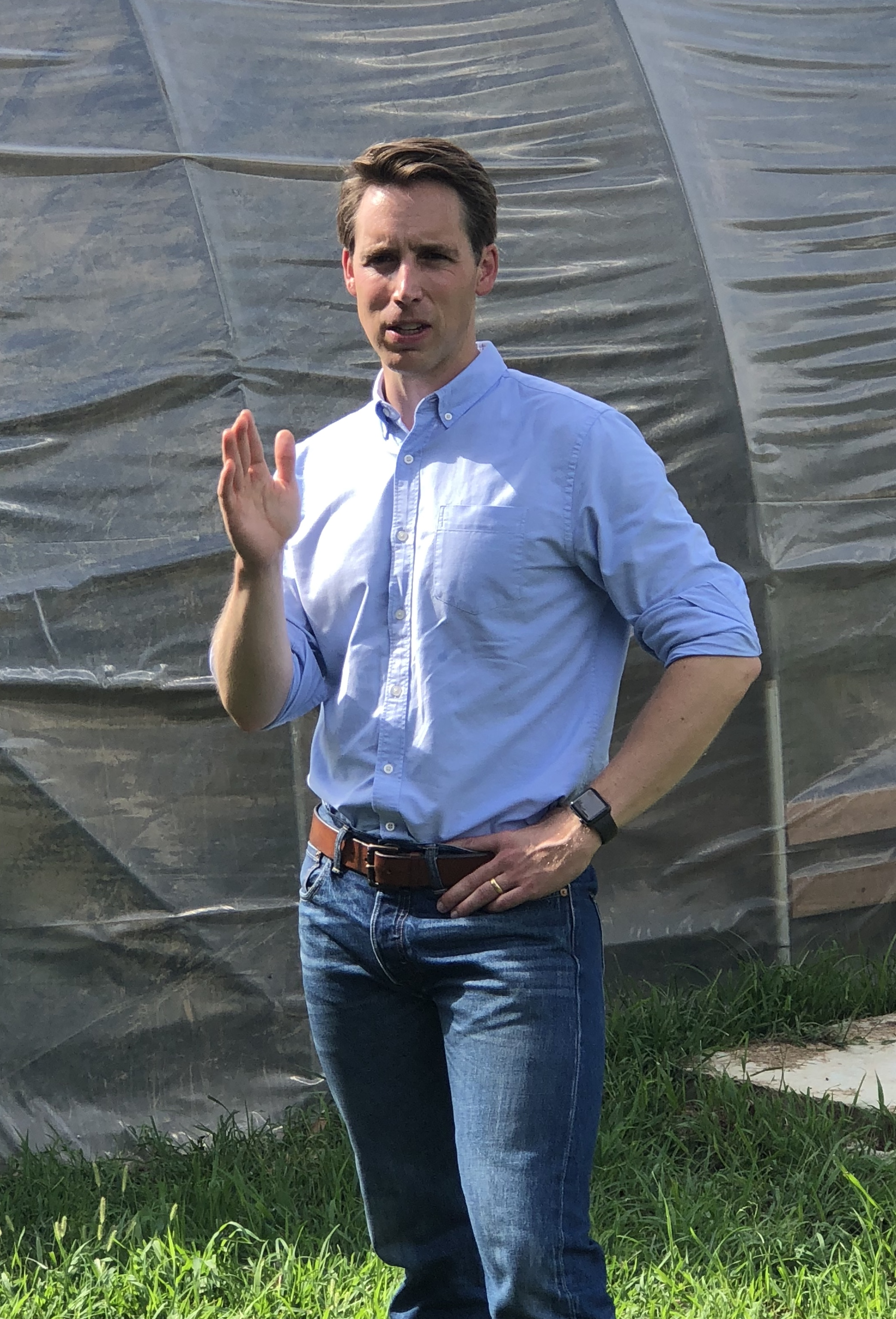 Josh Hawley delivering a speech in Jackson, MO